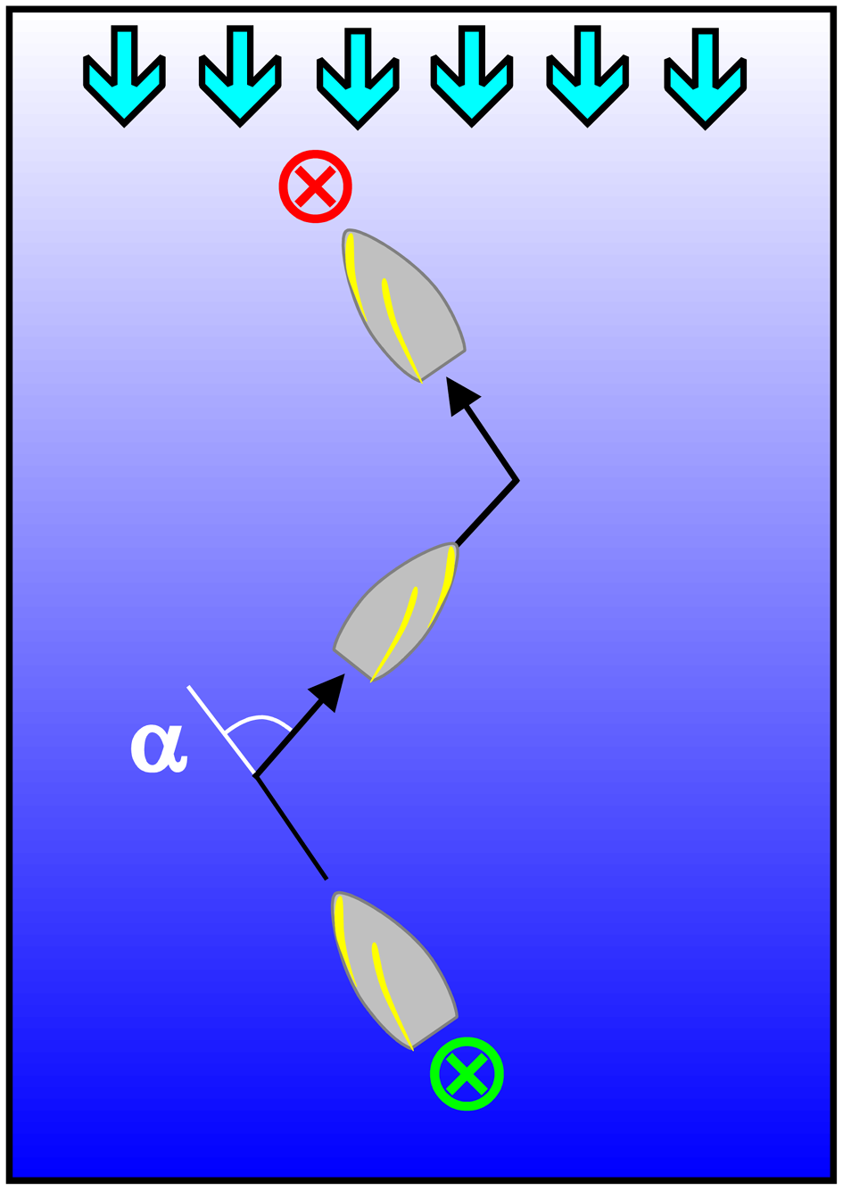 Sailing upwind